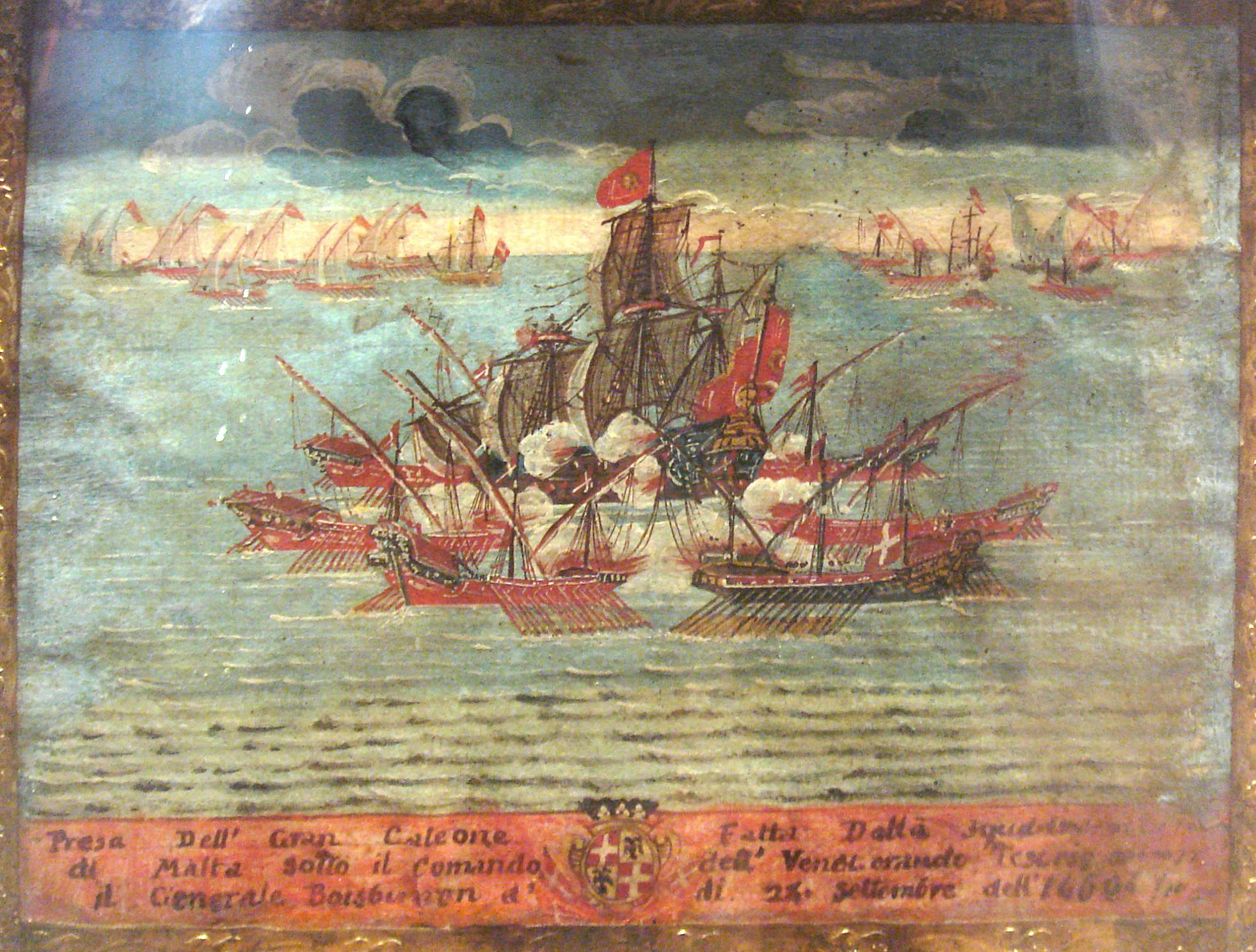 Capture of a Turkish galleon by Commander Boisbaudran 1650 alt.